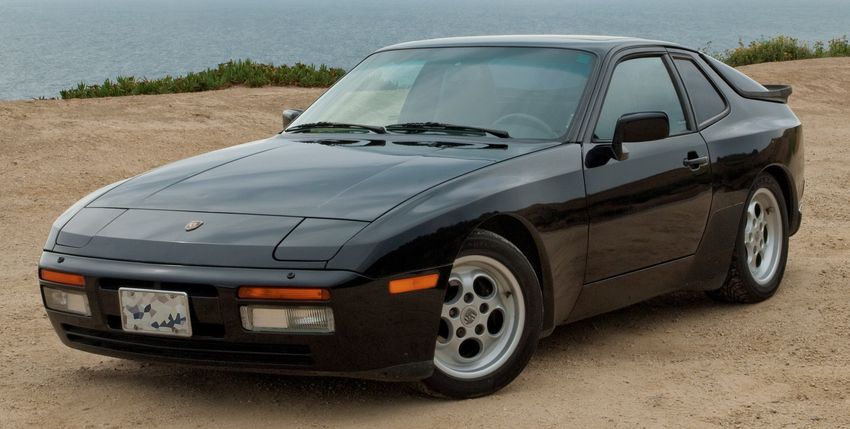 Stock 1986 Porsche 944 Turbo Coupe, overlooking the Pacific Ocean, off of US Highway 1